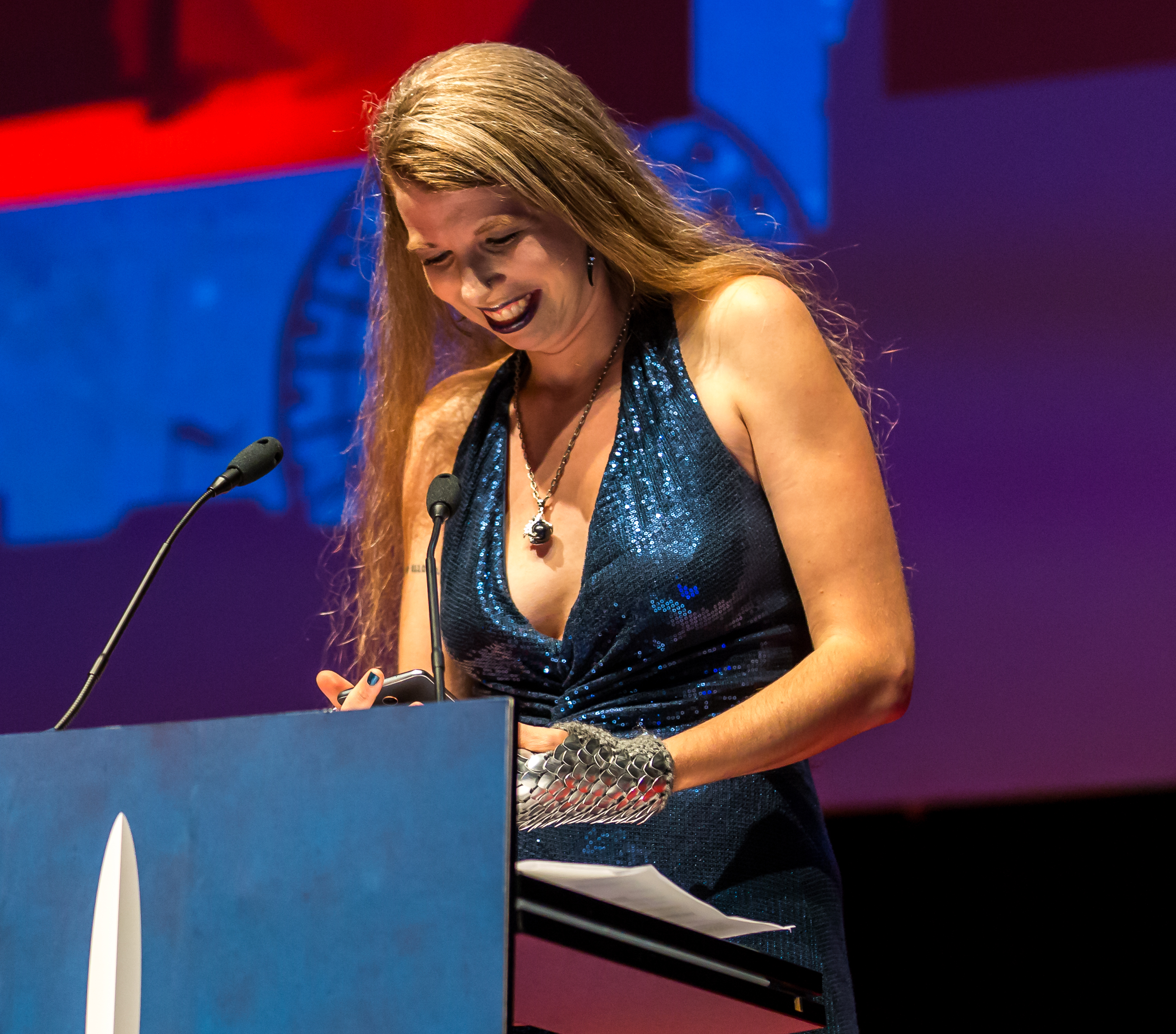 Liz Gorinsky, editor, at the Hugo Awards Ceremony, Worldcon, Helsinki.